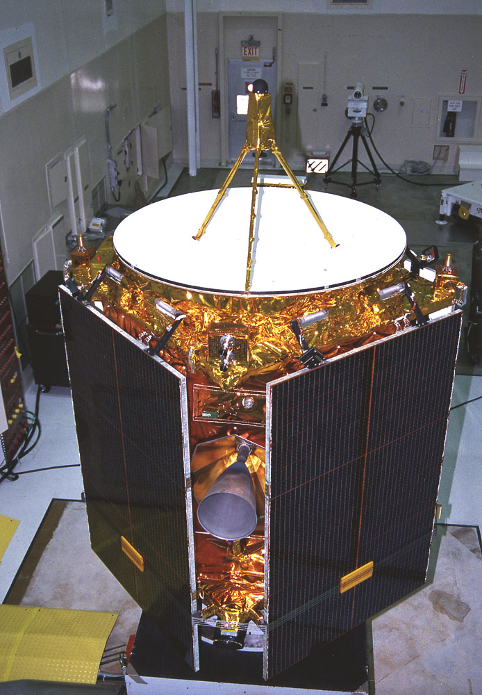 Orginal Full Description: The Near Earth Asteroid Rendezvous (NEAR) spacecraft undergoing preflight preparation in the Spacecraft Assembly Encapsulation Facility-2 (SAEF-2) at Kennedy Space Center (KSC). NEAR will perform two critical mission events - Mathilde flyby and the Deep-Space maneuver. NEAR will fly-by Mathilde, a 38-mile (61-km) diameter C-type asteroid, making use of its imaging system to obtain useful optical navigation images. The primary science instrument will be the camera, but measurements of magnetic fields and mass also will be made. The Deep-Space Maneuver (DSM) will be executed about a week after the Mathilde fly-by. The DSM represents the first of two major burns during the NEAR mission of the 100-pound bi-propellant (Hydrazine/nitrogen tetroxide) thruster. This maneuver is necessary to lower the perihelion distance of NEAR's trajectory. The DSM will be conducted in two segments to minimize the possibility of an overburn situation.